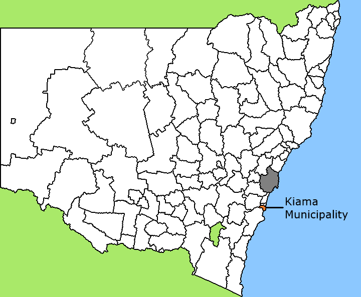 Map of New South Wales/Australia, LGA of the Municipality of Kiama highlighted